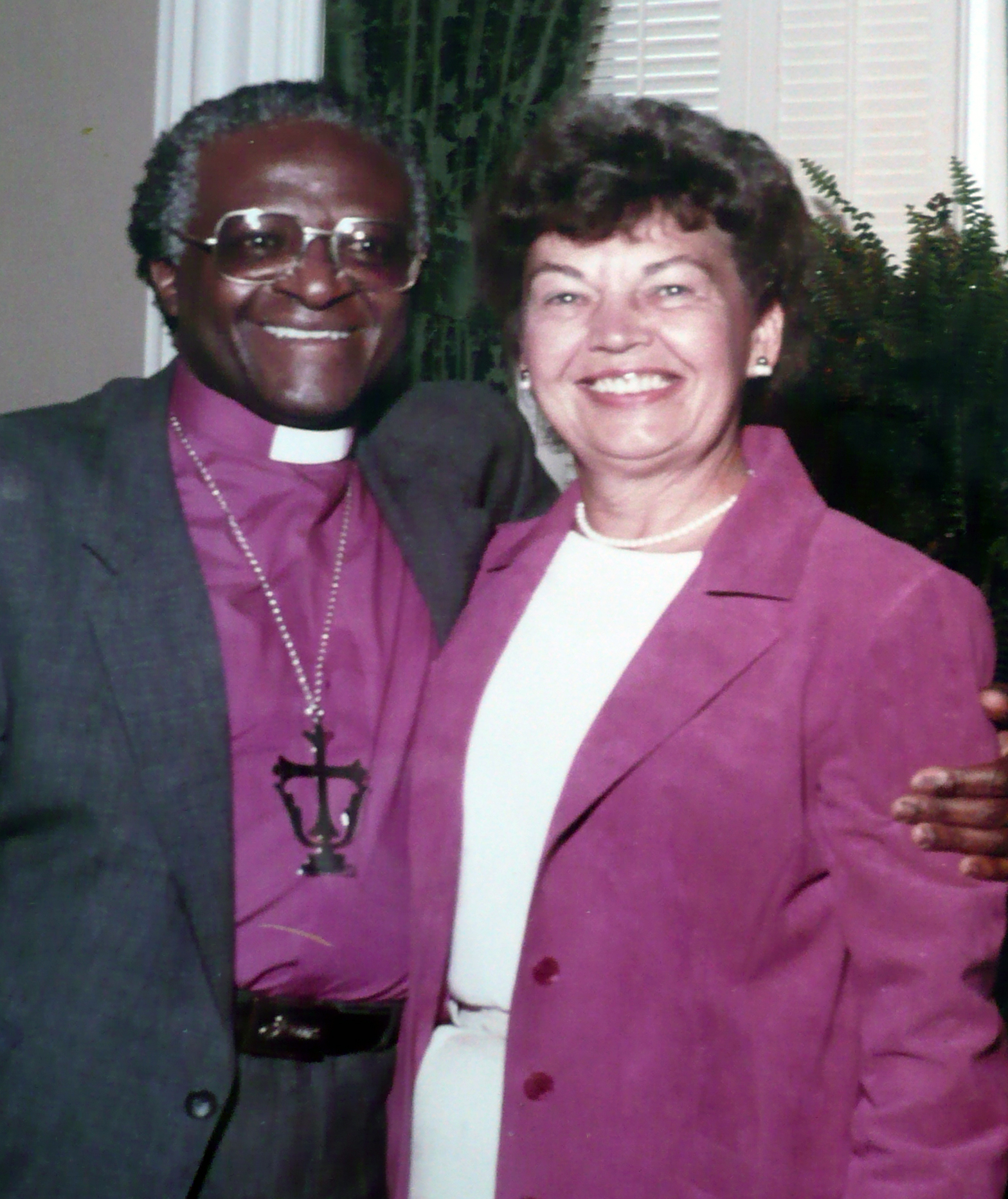 (Left) Archbishop Desmond Tutu, South Africa (Right) Sally Tanner, El Monte, state representative from the 60th District in the California State Assembly. In January of 1986, Nobel Prize winner Archbishop Tutu visited San Francisco and spoke at Stanford University about apartheid in South Africa. During this trip he visited the California State Legislature where this photograph with Sally Tanner was taken by a U.S. Government photographer as part of Bishop Tutu's tour of California. Other politicians were photographed as part of this series. A print of the photograph was framed and given to Sally Tanner. This is my photograph of her copy, color corrected, contrast corrected, sharpened and cropped.